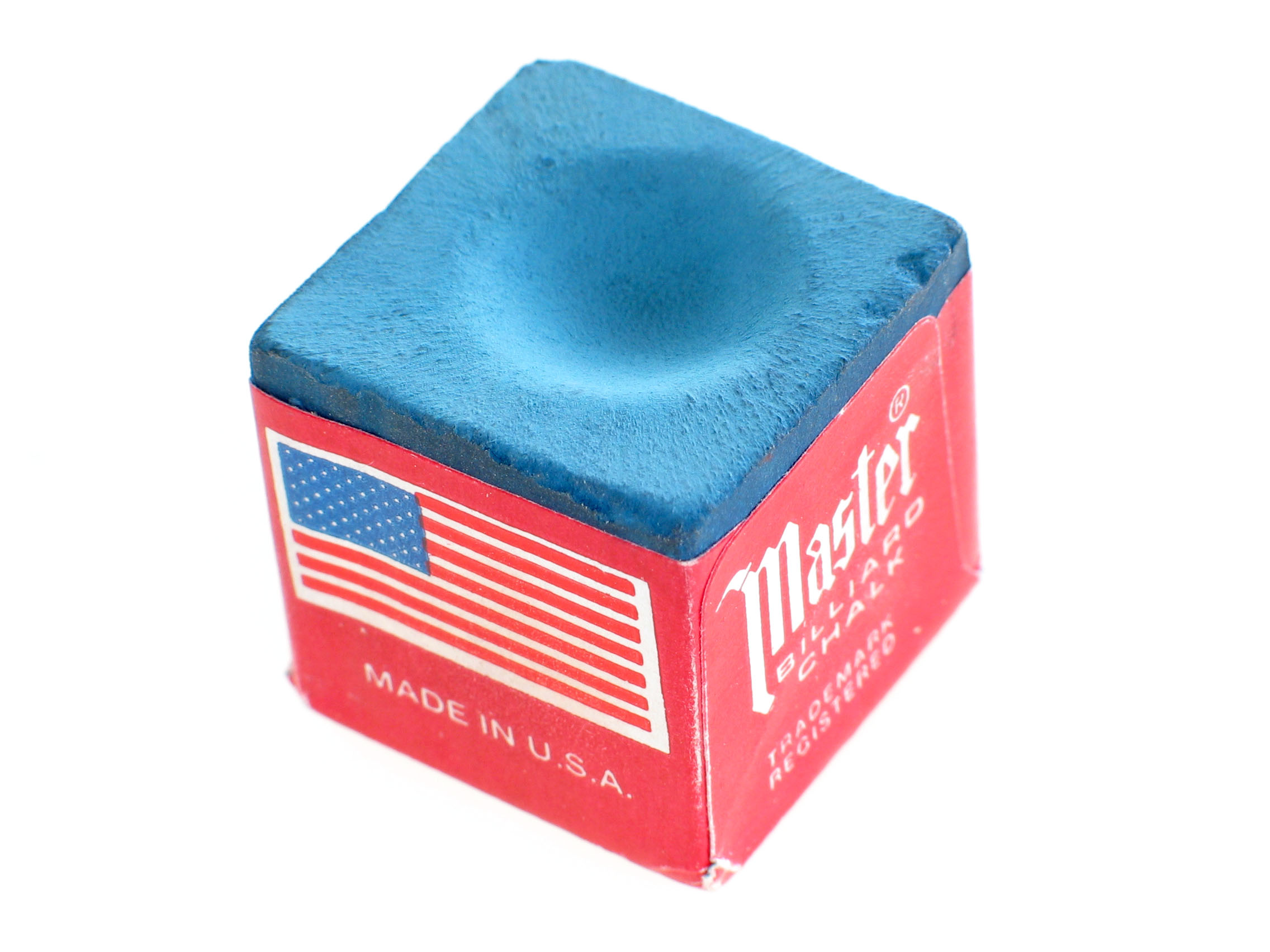 Billiard chalk, photo taken in Sweden